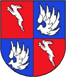 Coat of arms of Soyhières, Canton of Jura, Switzerland